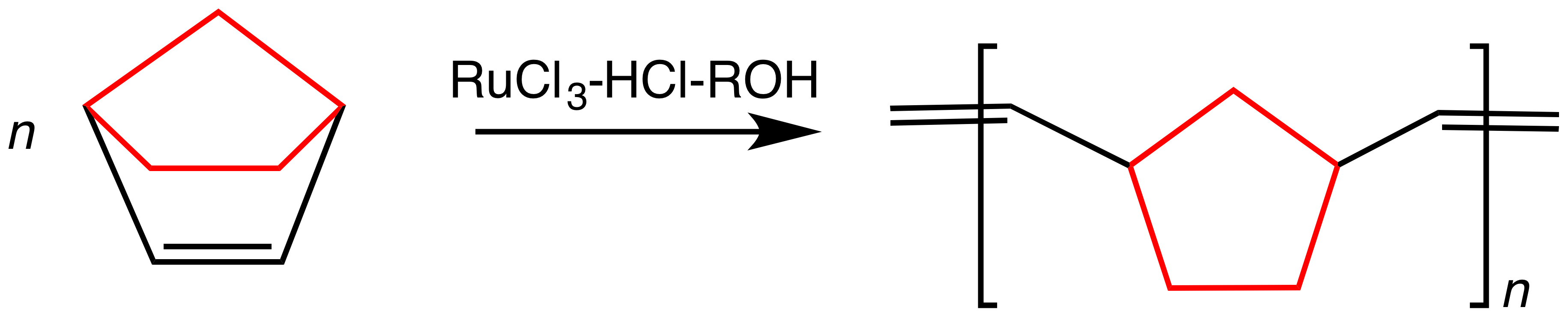 reaction giving polynorbornene, color coded